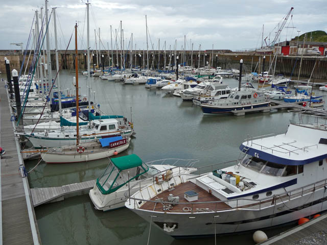 Watchet Harbour Marina. Watchet Harbour was used by commercial vessels until 2000. The 250 berth marina opened in 2001. Compare with 994568